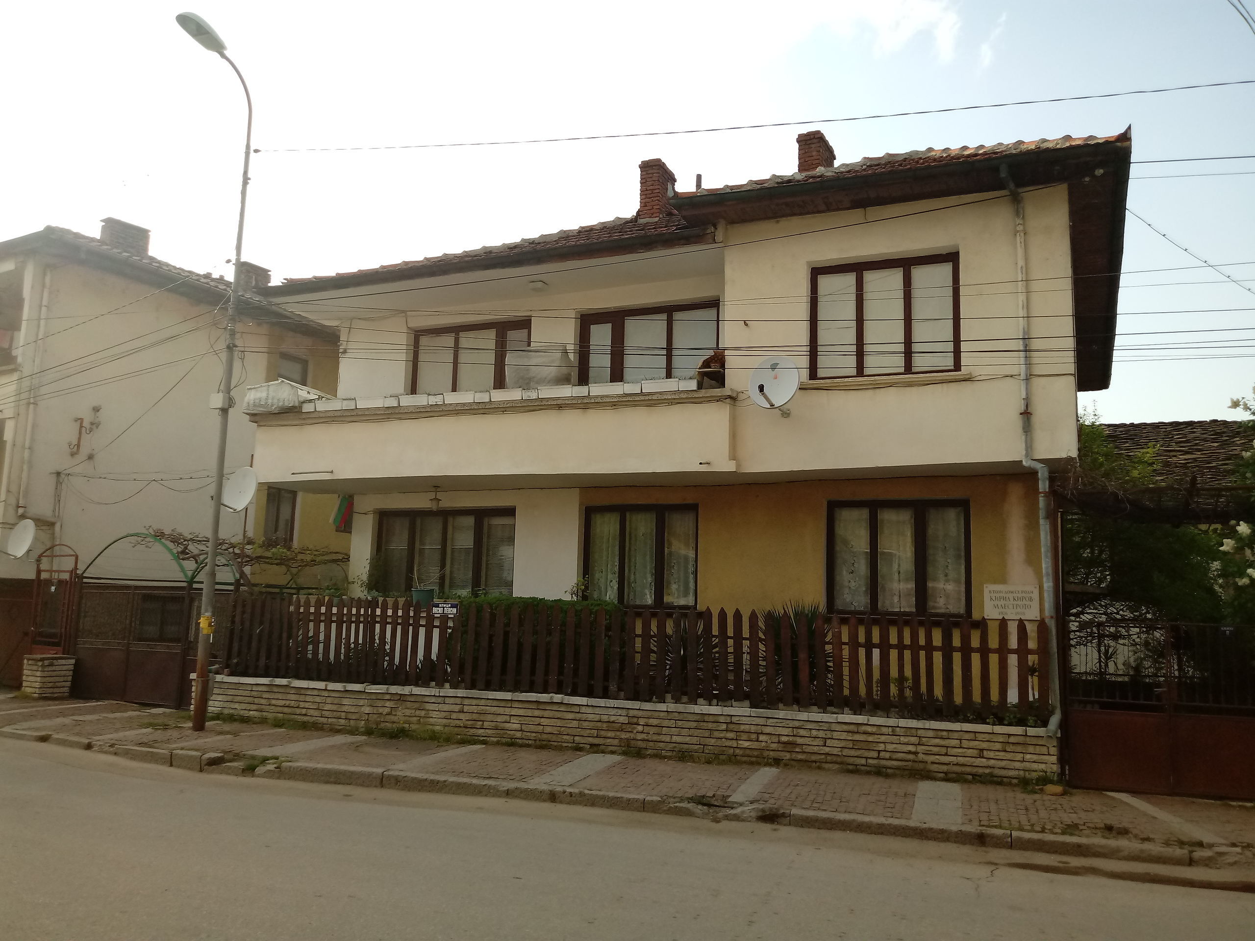 Maestro Kiril Kirov home with memorial plaque, Lovech